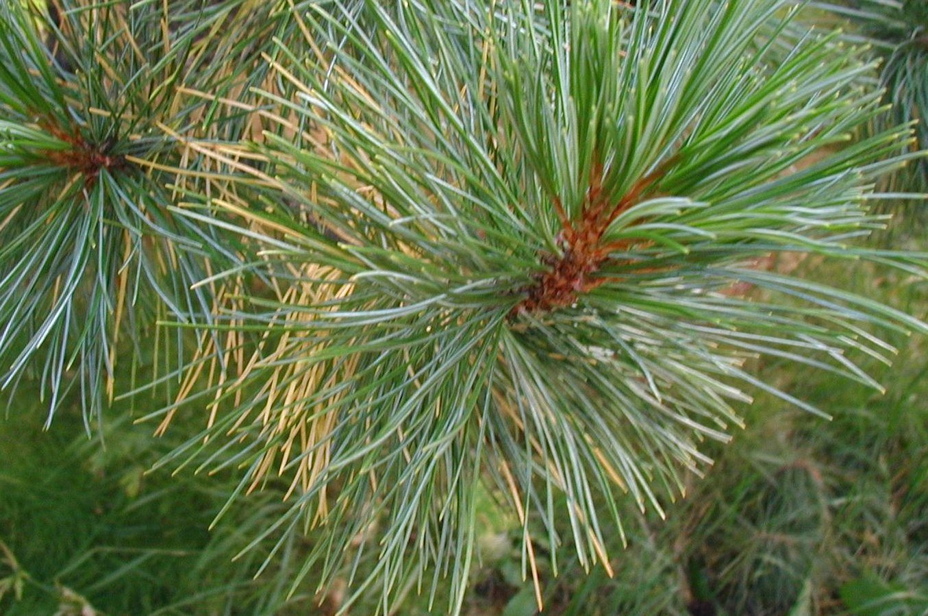 Pinus sibirica (syn. P. cembra subsp. sibirica): A large tree growing from a seed of Sibirian provenance.